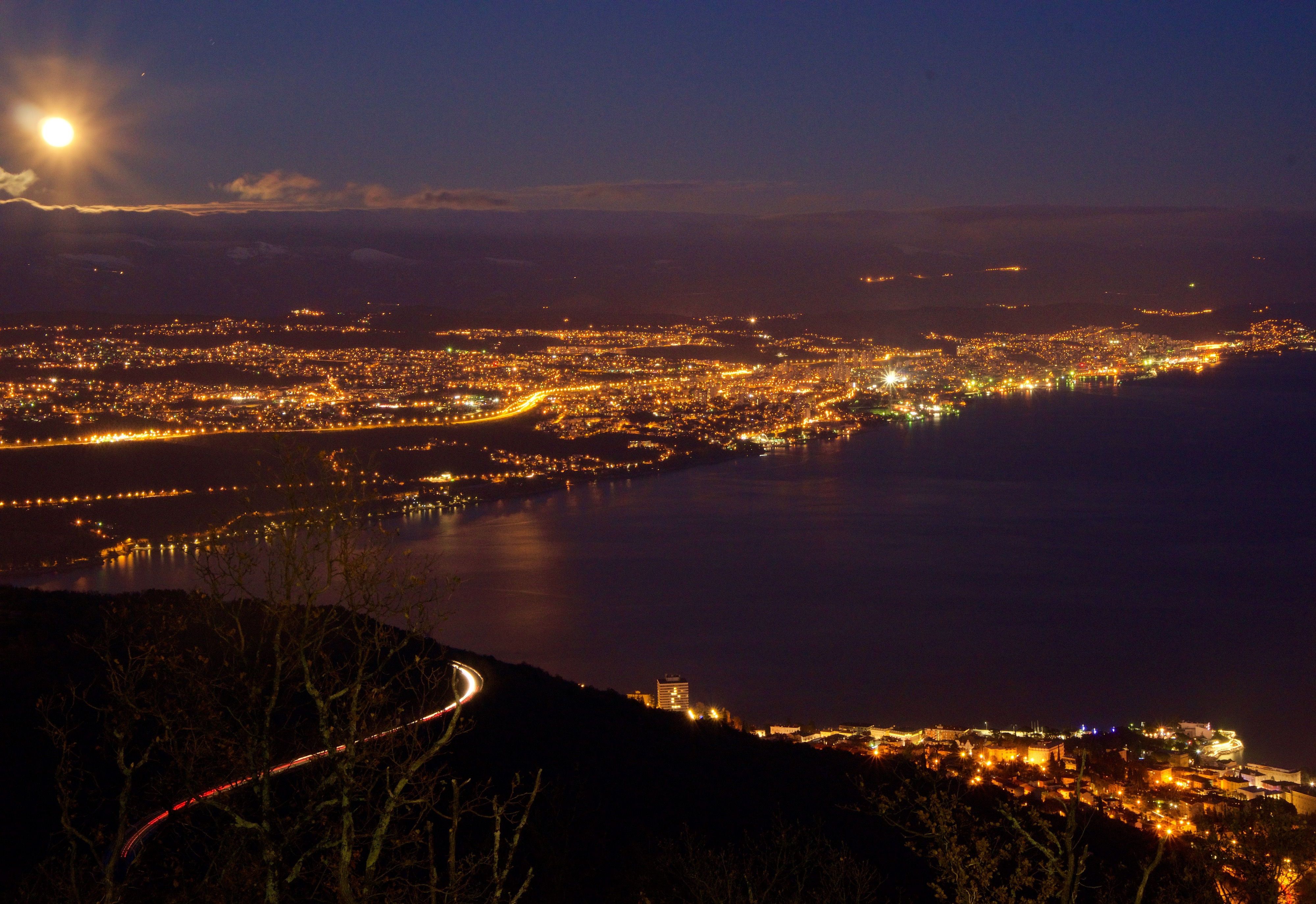 One of the best views of Rijeka, from Veprinac